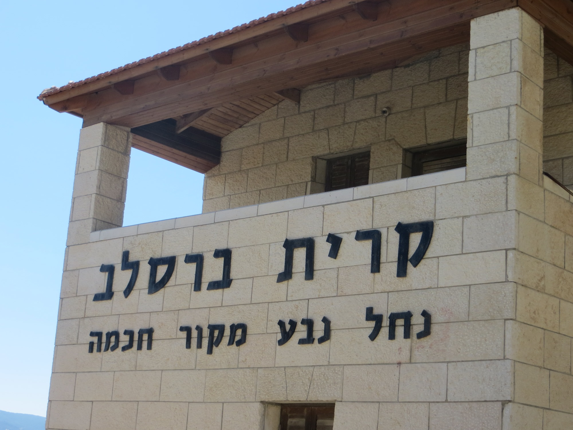 Geography of Israel